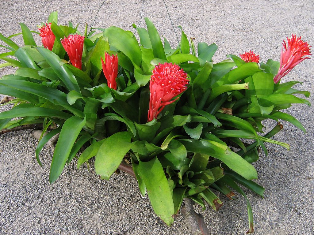 Billbergia pyramidalis var. concolor in cultivation at the Botanical Garden of Heidelberg, Germany.